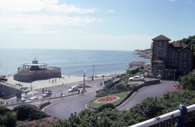 Looking down on Ventnor (1)